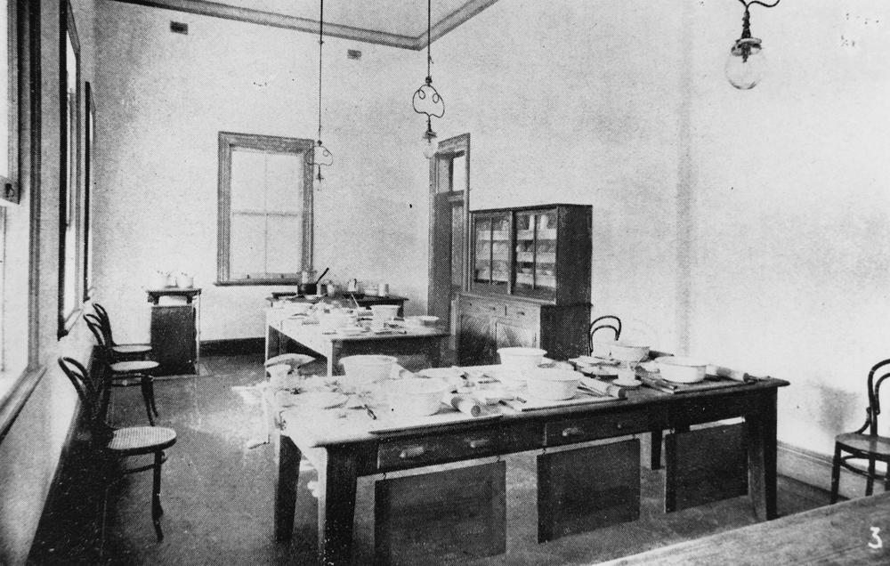 Inside Mount Morgan Technical College's Cooking Class Room, Mt. Morgan, 1909 Classroom with chairs and tables laid with mixing bowls, rolling pins and measuring jugs.